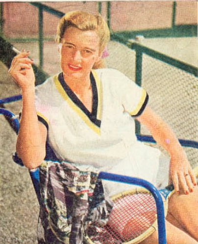 Cropped to show the player only.